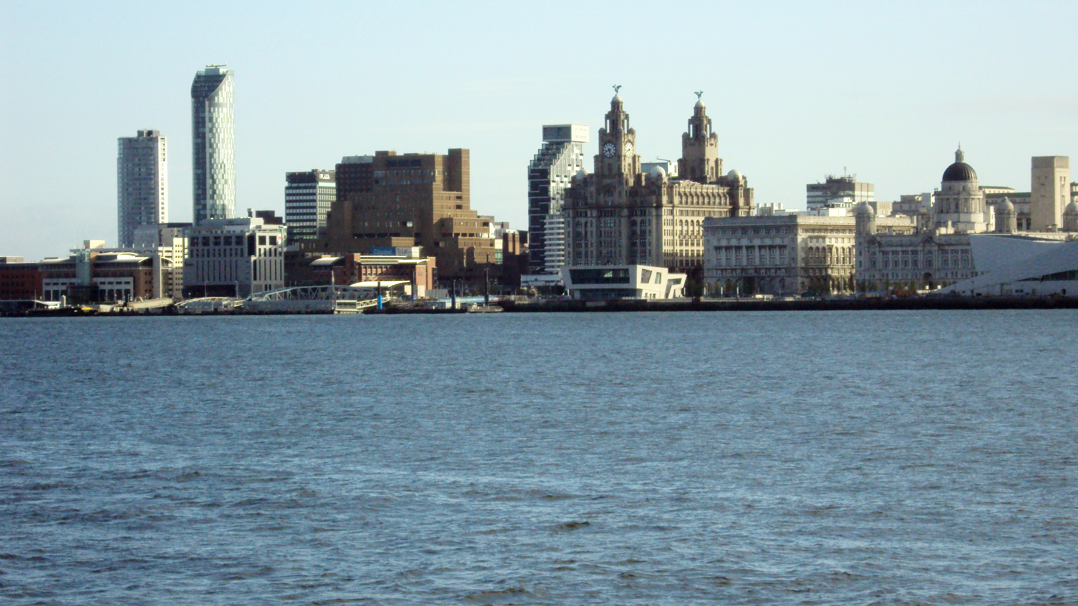 Liverpool Waterfront as seen from Monks Ferry, Birkenhead, Merseyside, England.